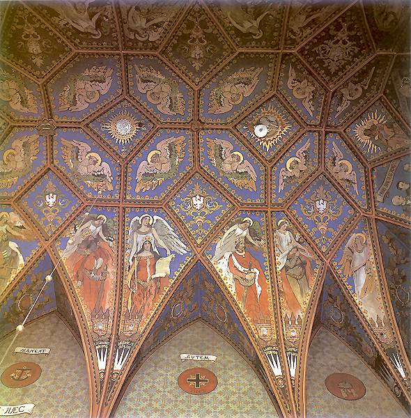 Church of Corpus Christi in Biecz, polychromy by Włodzimierz Tetmajer on choir vault